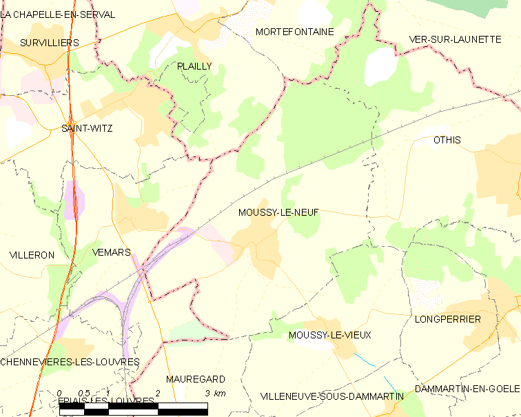 Map of French municipality Moussy-le-Neuf